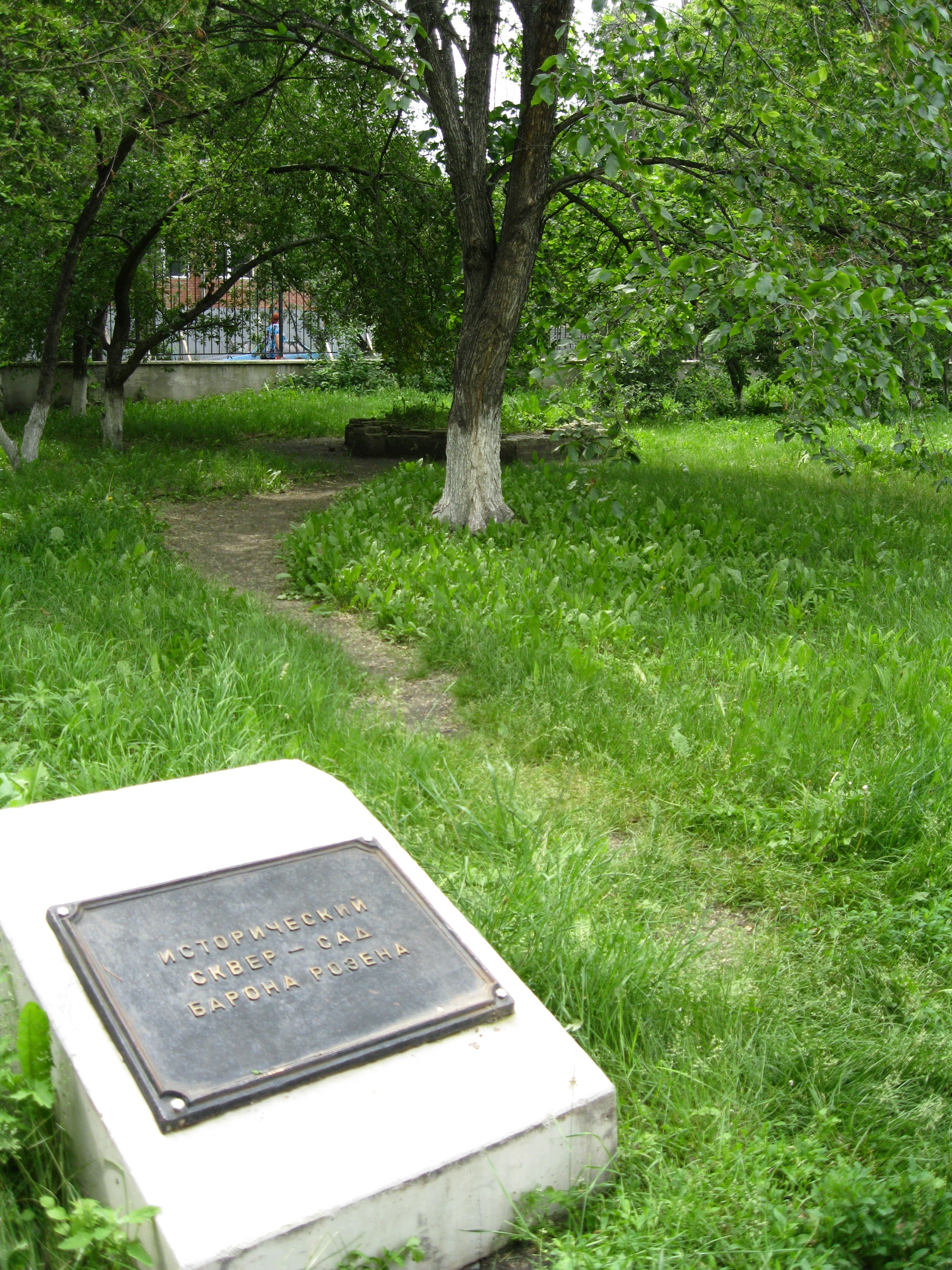 Baron von Rosen's garden in Kurgan, Russia